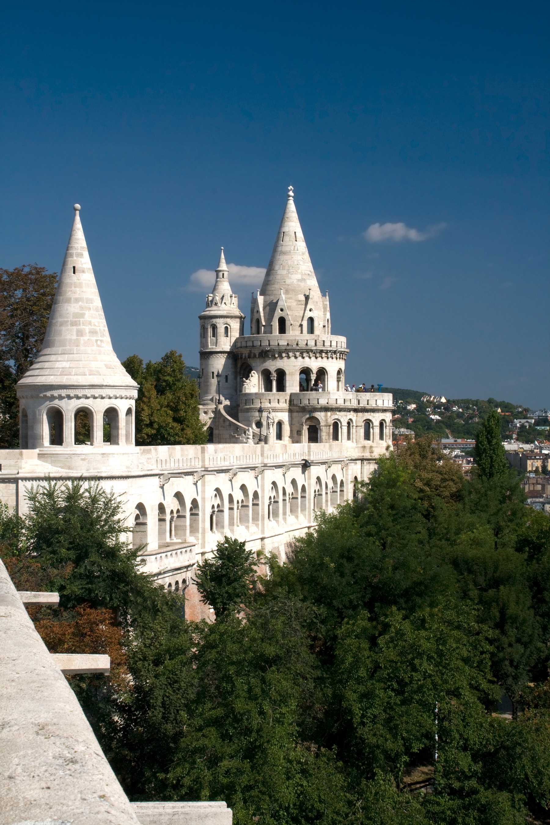 Fisher Bastion in Budapest